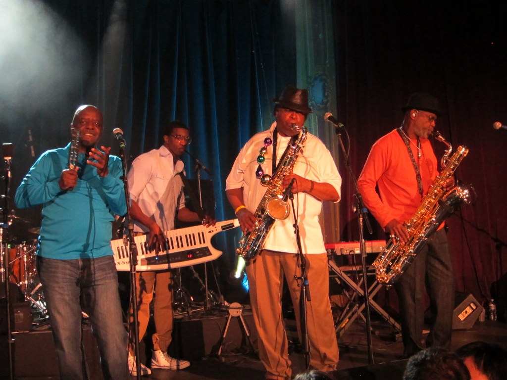 Dirty Dozen Brass Band in 2014